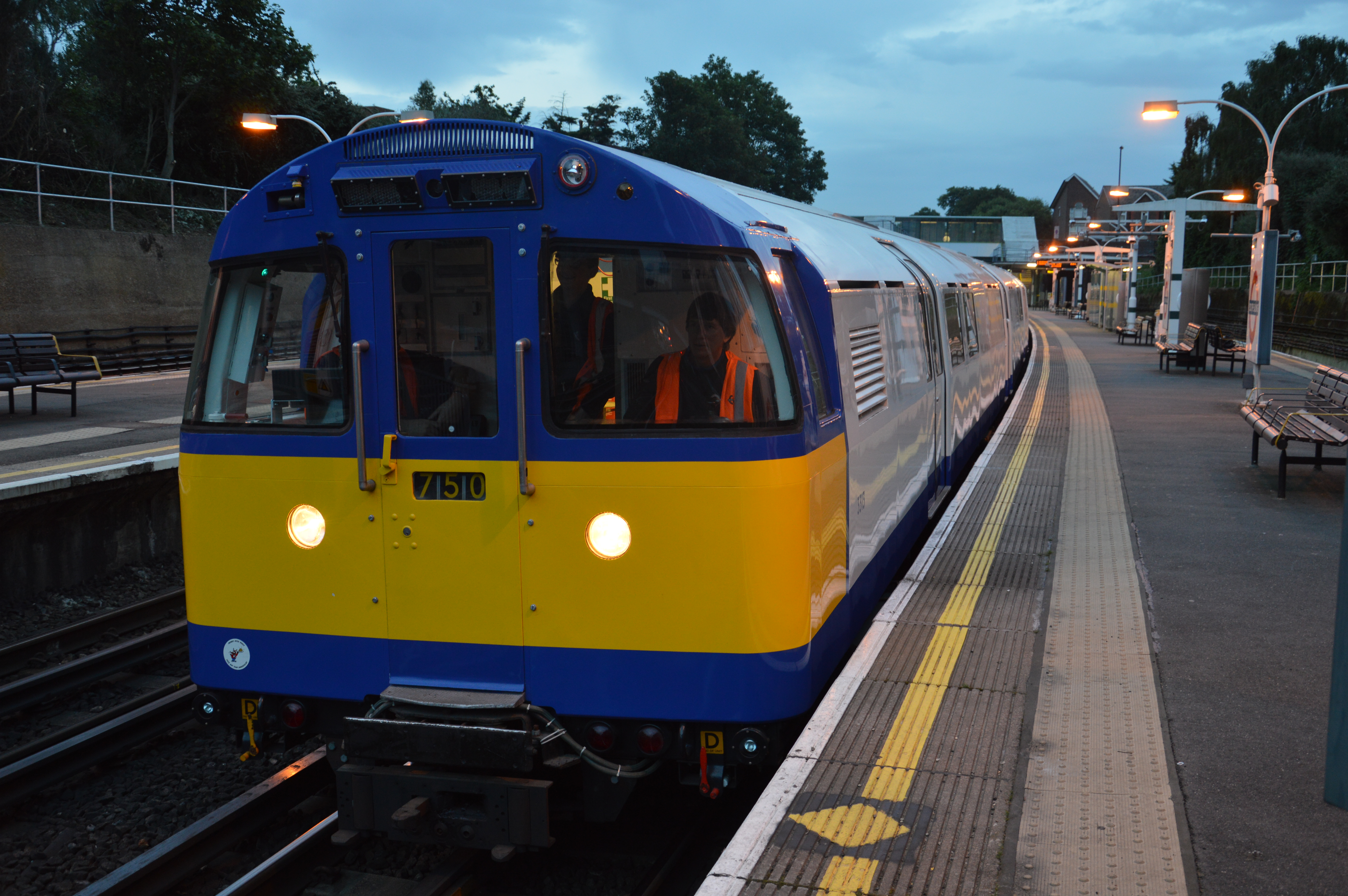 AIT at South Ealing.